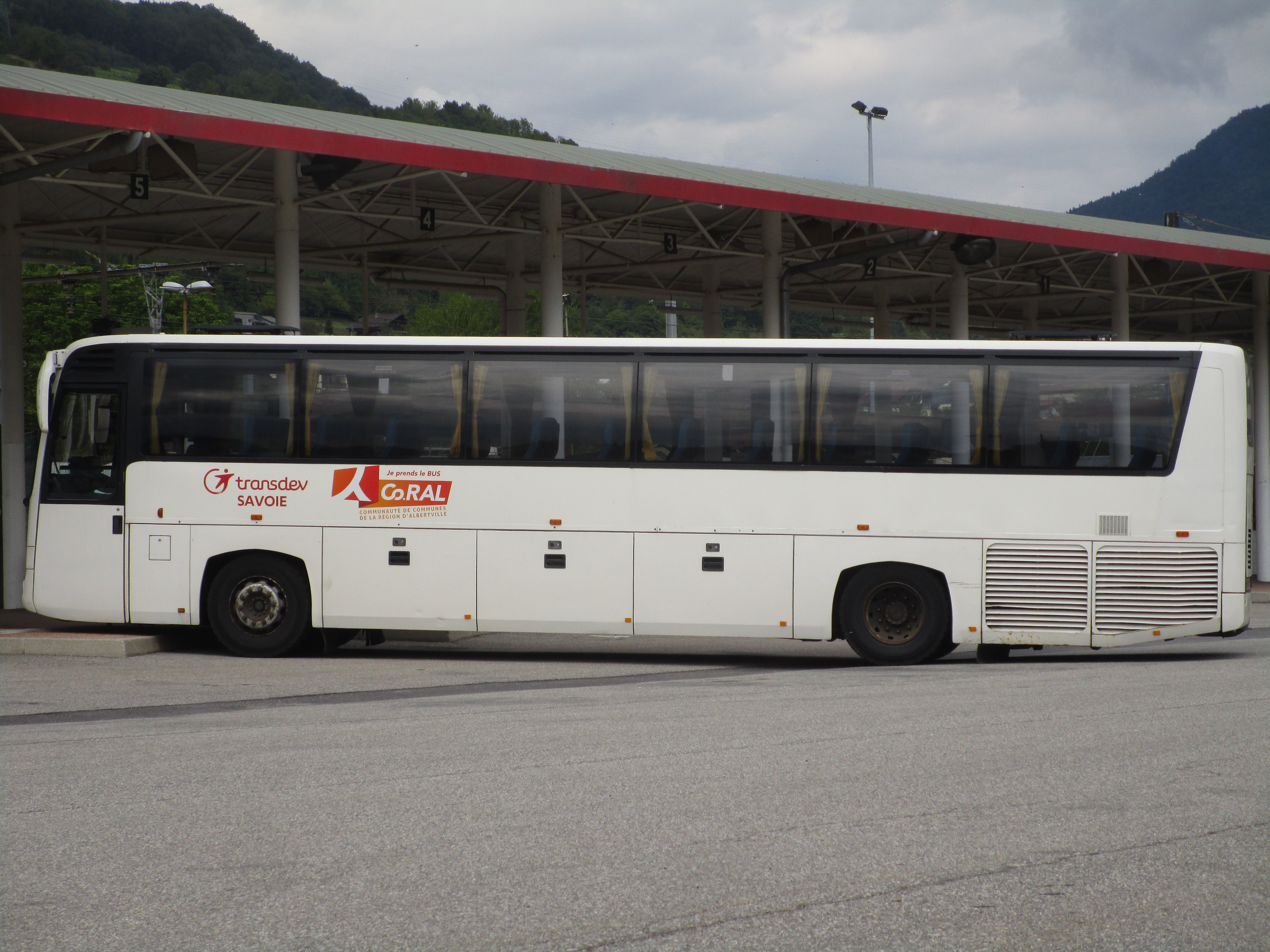 An Irisbus Iliade (n°464 of Transdev Savoie) running on Transports Région Arlysère’s line D — Chef-Lieu, Cevins↔Gare routière, Albertville — at the bus station (Albertville, France) on August 9, 2017.